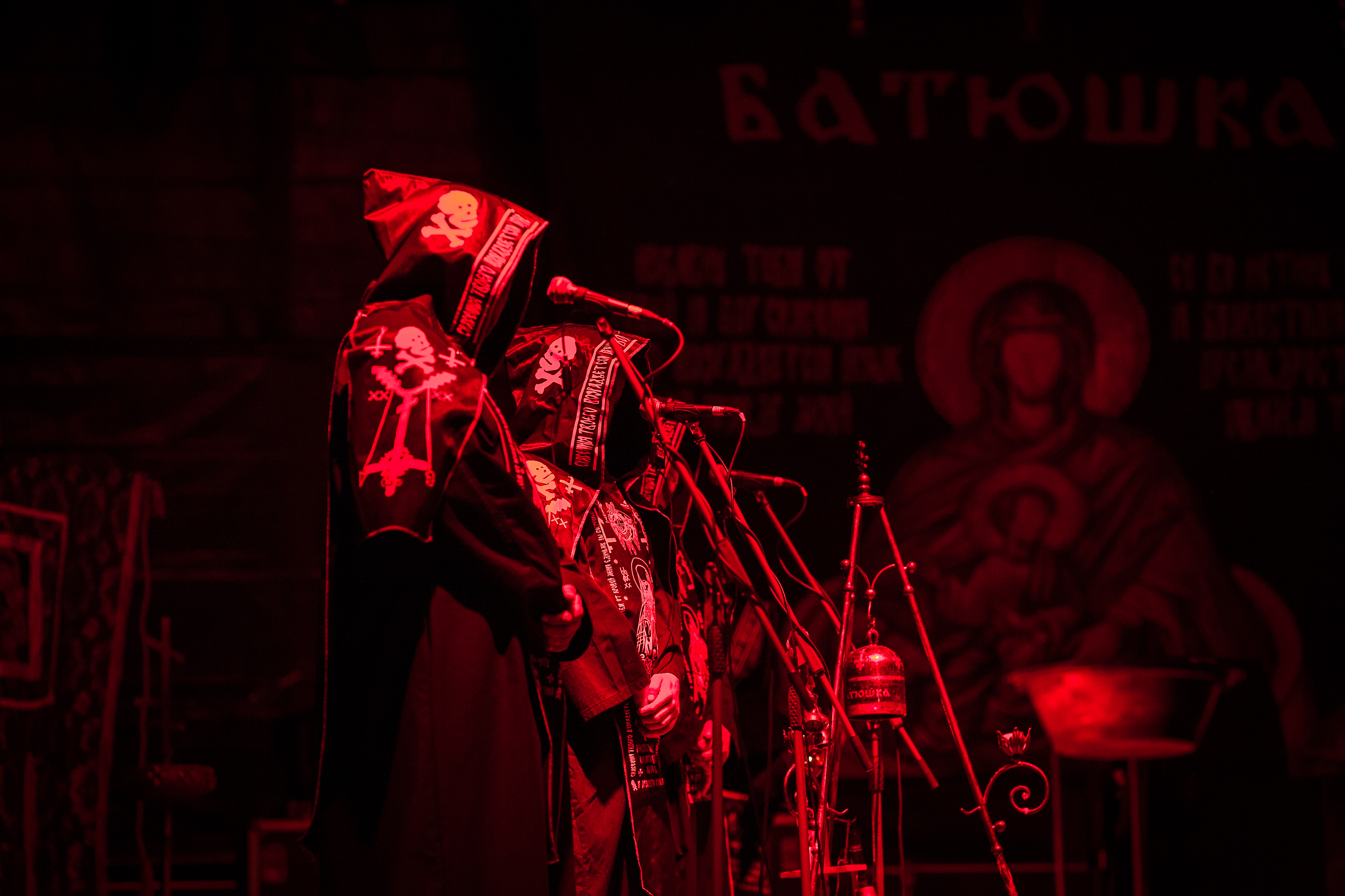 Batushka during the concert at the Brutal Assault 2017 festival.